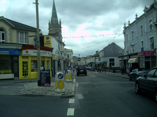 Newton Abbot - centre